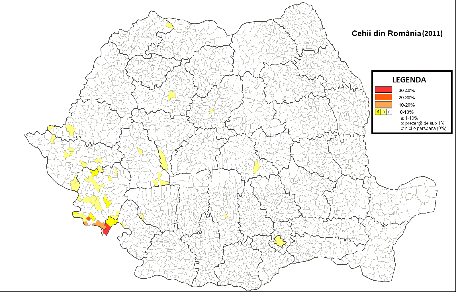 This is the map of the Romanian citizens of Czech ethnicity made off the population census from 2011. It doesn't include the communes with less than 3 citizens from this ethnicity, due to their irrelevance. The image is made off the map of the 2002 census.